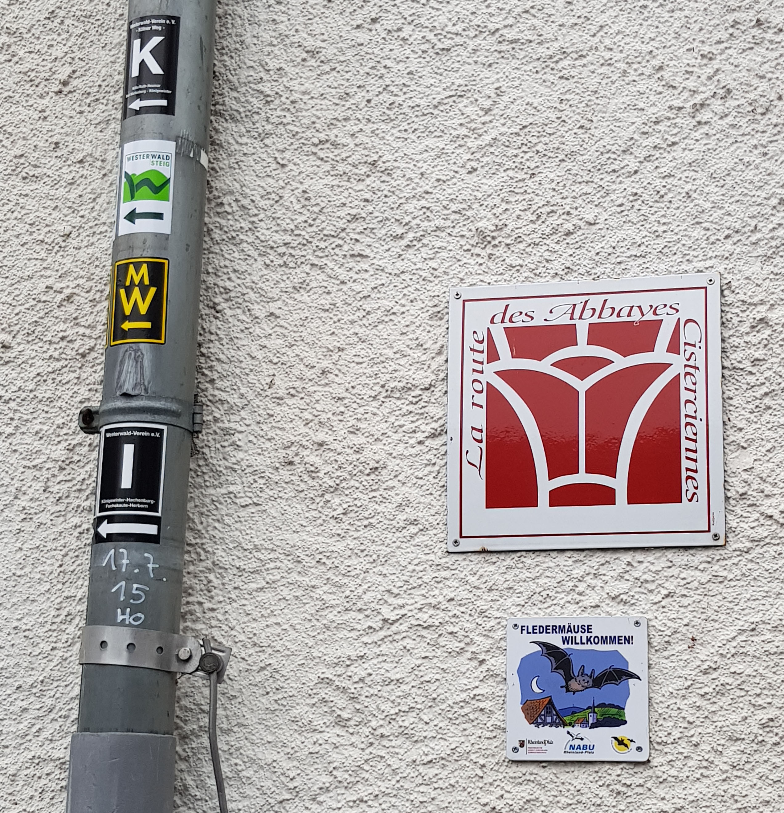 Am Pfortenhaus: "Route européenne des abbayes cisterciennes", "Fledermäuse Willkommen" (NABU) und die Wandermarkierungen (von oben nach unten): K des Westerwaldvereins (Kölner Weg, 252.3 km), [Westerwald-Steig], Marienwanderweg (20,2 km von Marienstatt nach Marienthal, I des Westerwaldvereins (121.6 km von Königswinter nach Herborn